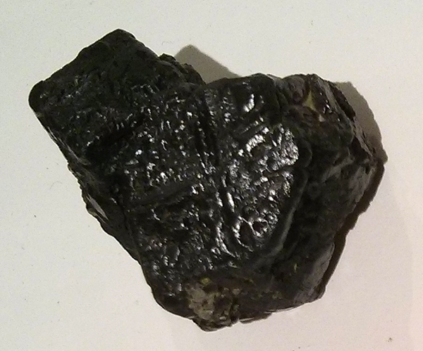 A Perovskite mineral (calcium titanate) from Kusa, Russia (Chelyabinskaya Oblast). Taken at the Harvard Museum of Natural History.